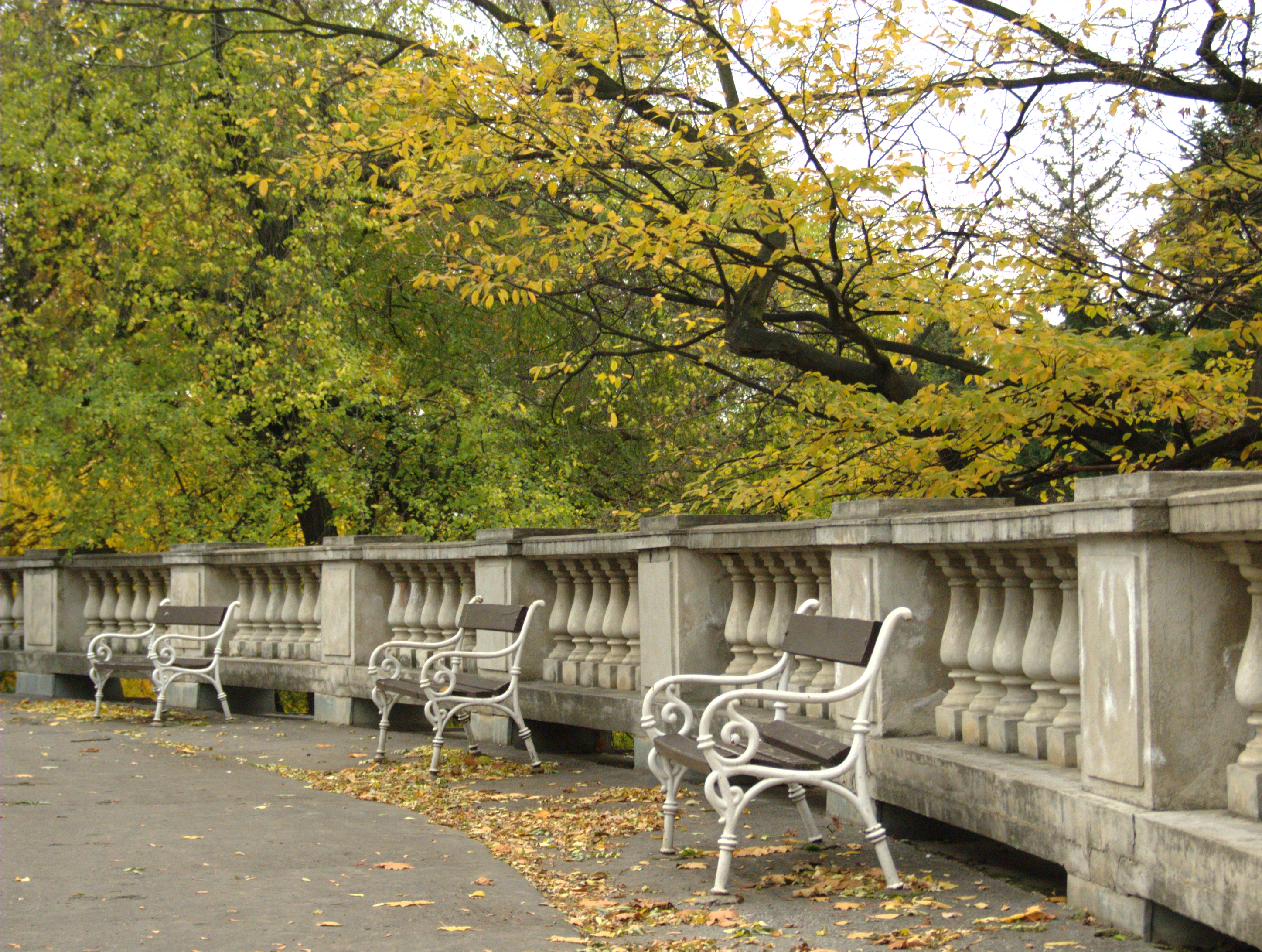 Stone balustrades and benches in autumn. Gröbovka park in Havlíčkovy sady, Prague-Vinohrady, Czech Republic